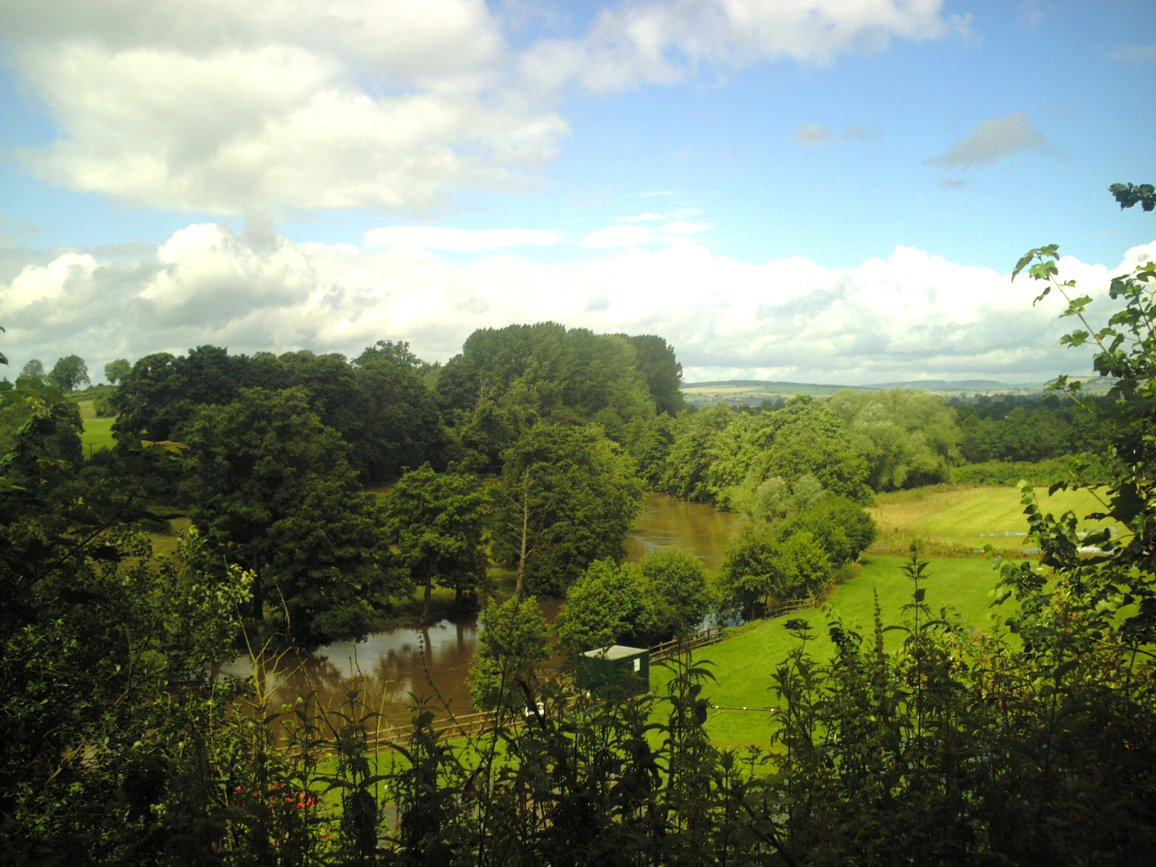 River Teme at Ludlow, Shropshire Picture retouched for a brighter view